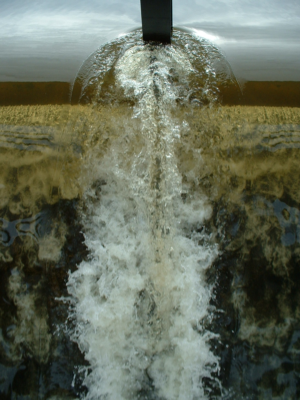 Water flow around an obstacle transits to turbulent wake